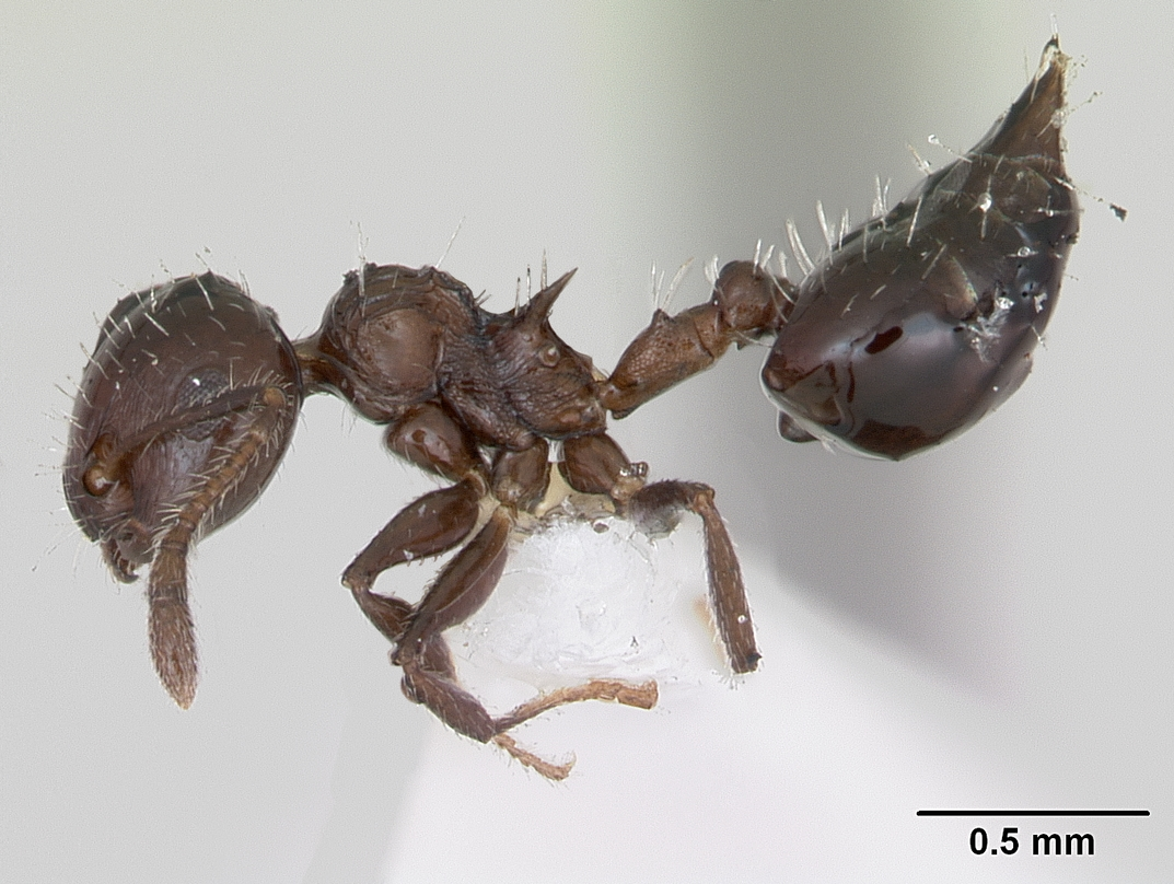 Profile view of ant Crematogaster curvispinosa specimen casent0173308.